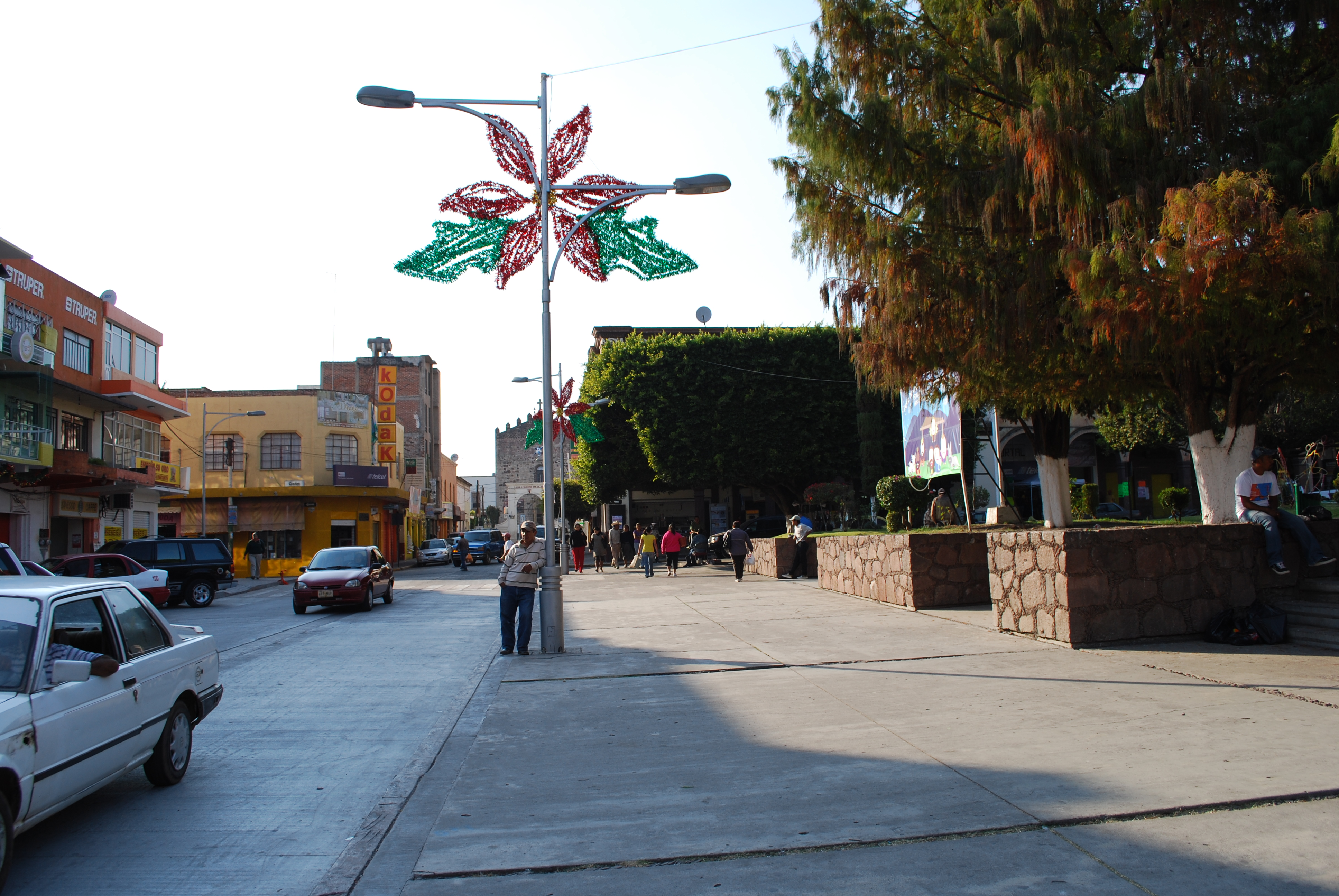 5 de Mayo street along the main square in Ciudad Hidalgo, Michoacan